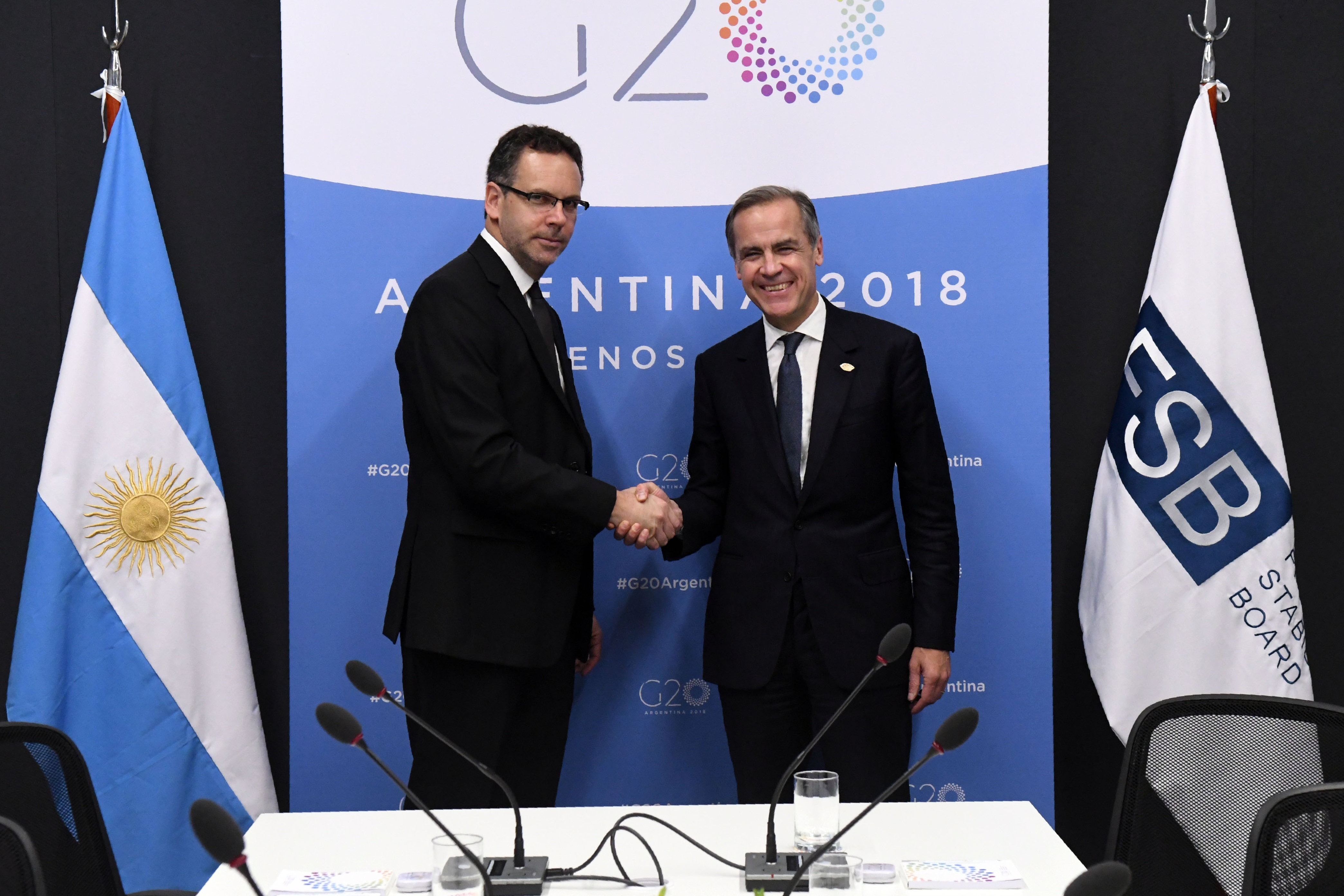 Bilateral meeting - Guido Sandleris and Mark Carney